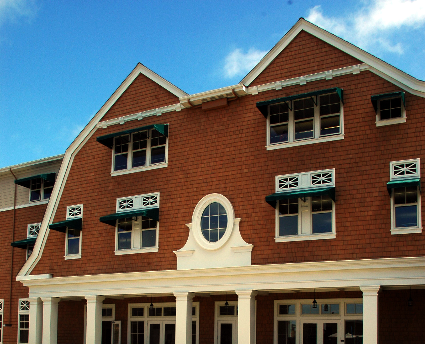 The Upper School and cafe at Head-Royce School in Oakland. Designed by John Malick & Associates.